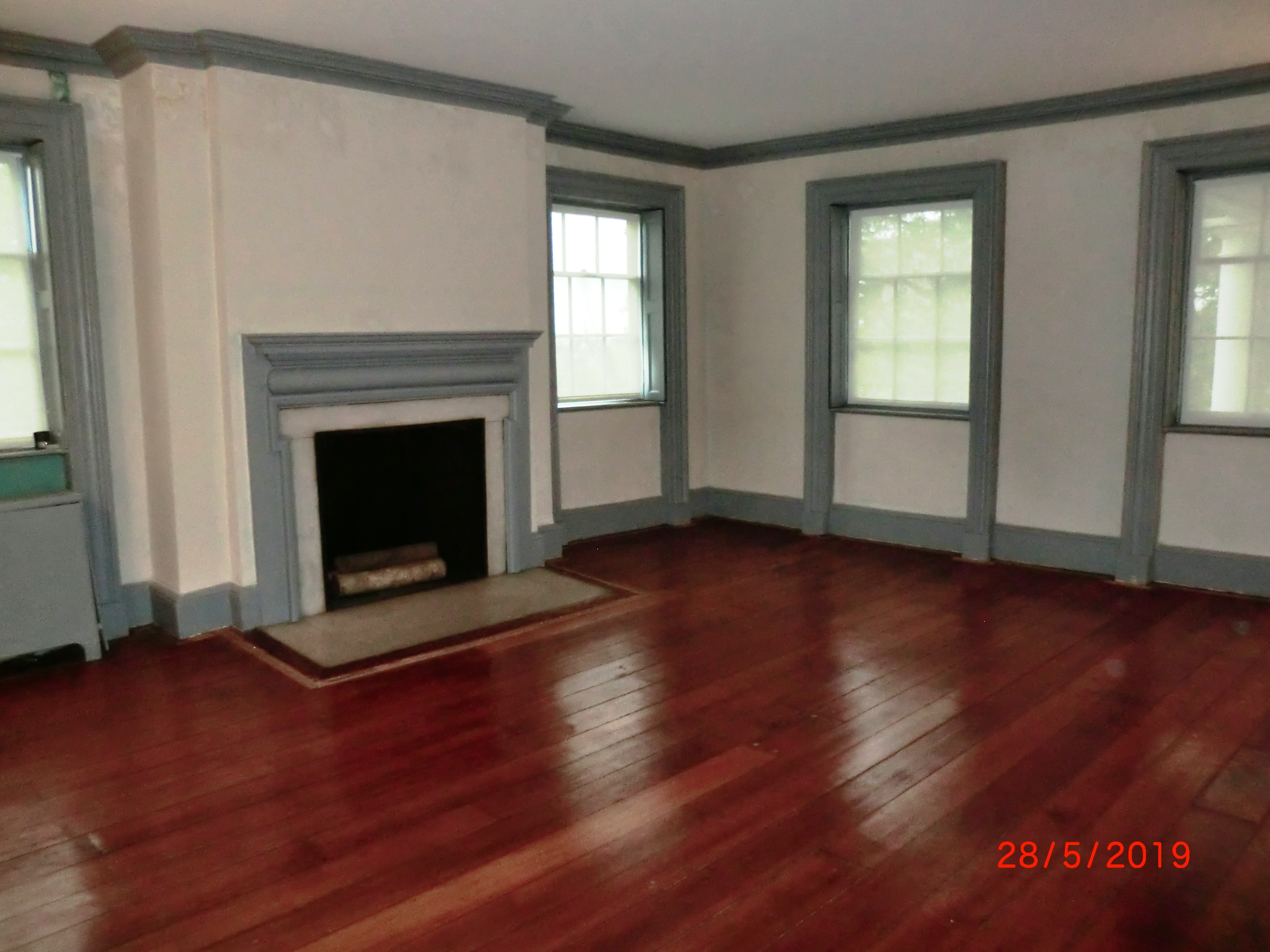 The photograph was taken by me on 28 May 2019